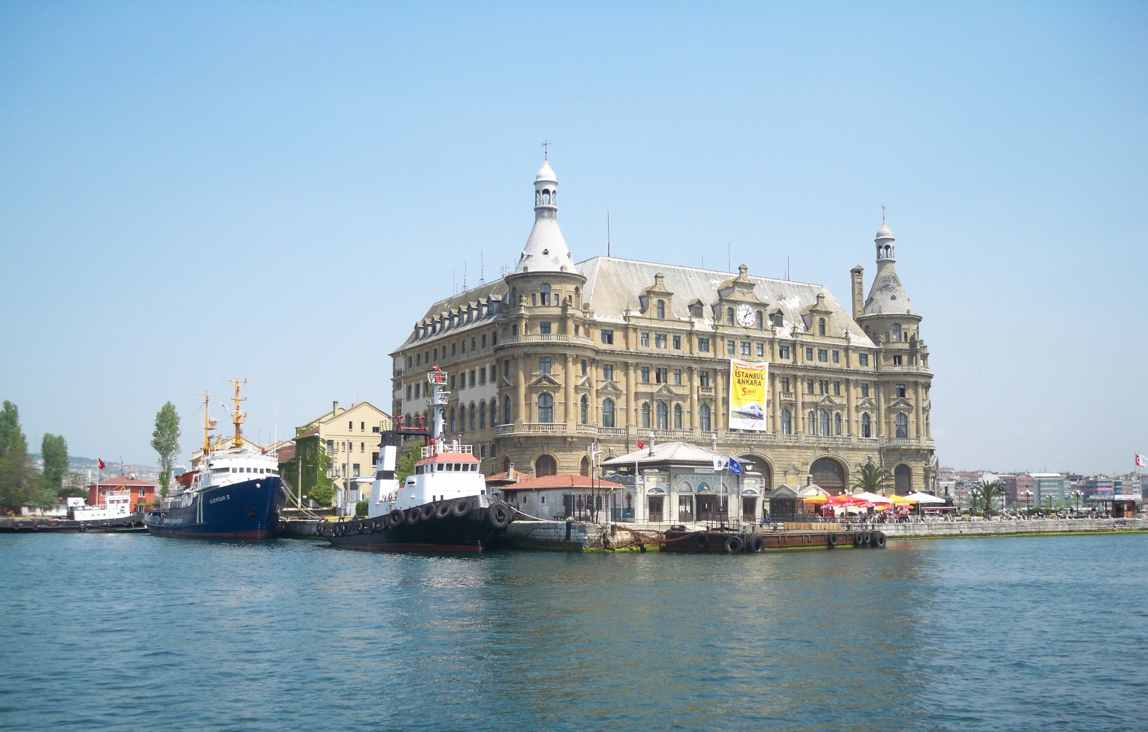 Picture of Haydarpaşa Train Station From Sea